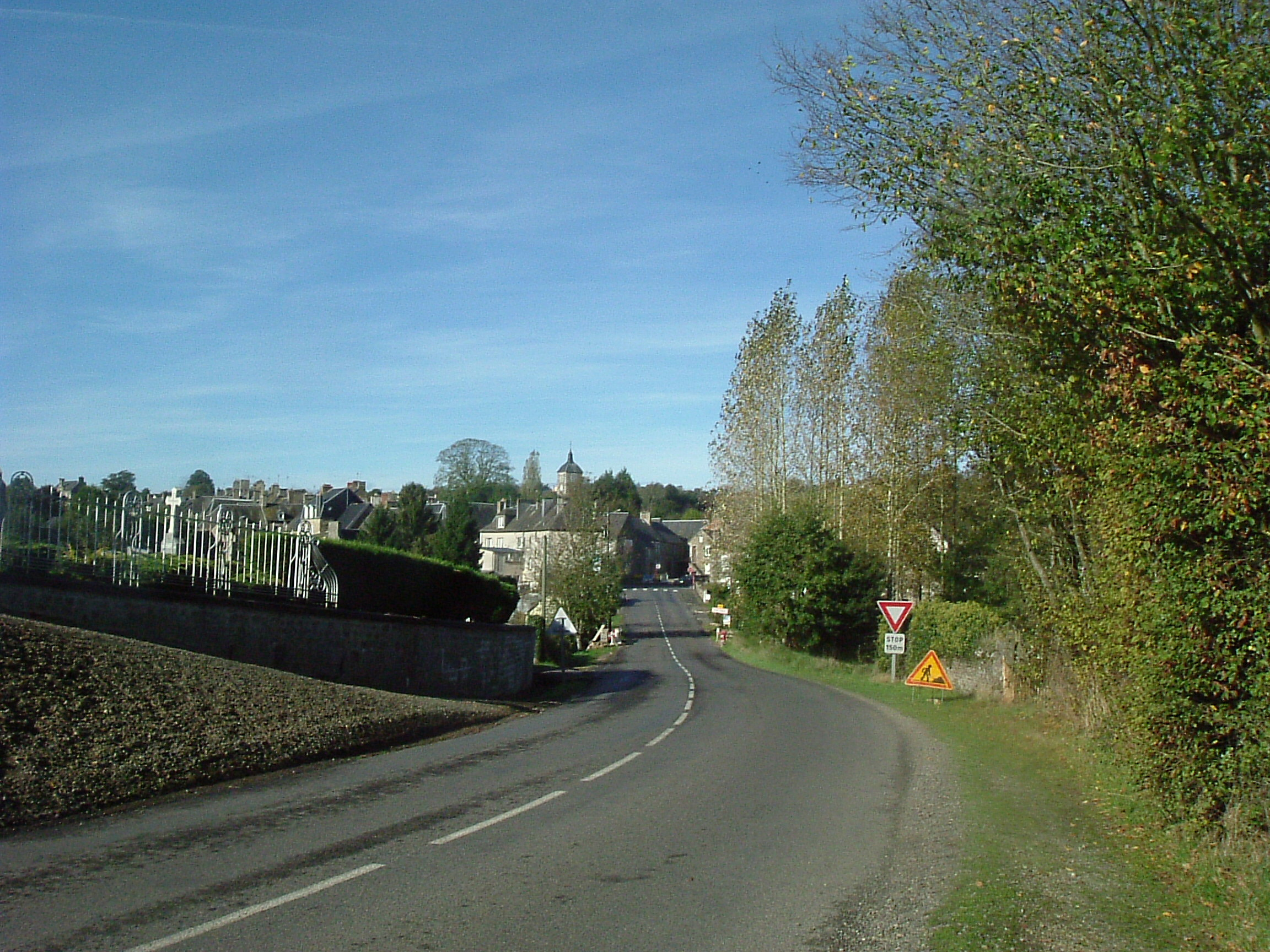 The D52 Road North in Calvados, France. Approaching Pont-Farcy.